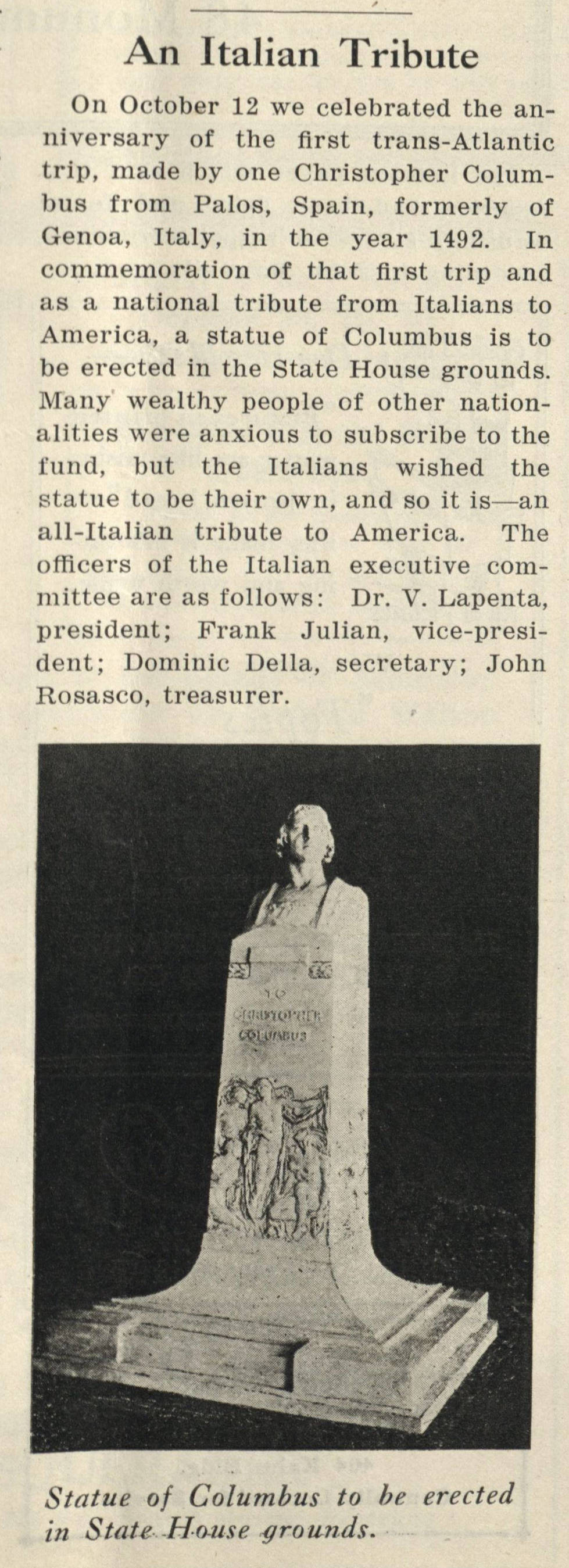 This is an issue of Topics, a magazine about literature, arts, music, and theatre as well as advertising about events and businesses in Indianapolis.